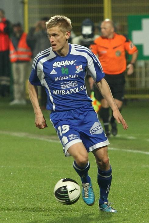 Sylwester Patejuk – Polish striker playing in Podbeskidzie Bielsko-Biała.